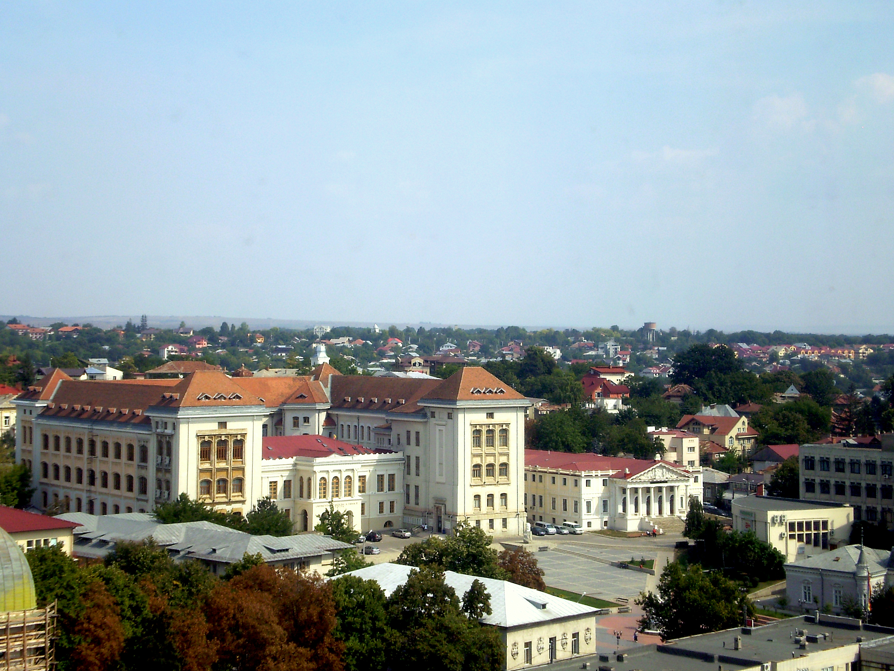 Iaşi , panoramic view to Nation Square , Iaşi , Romania